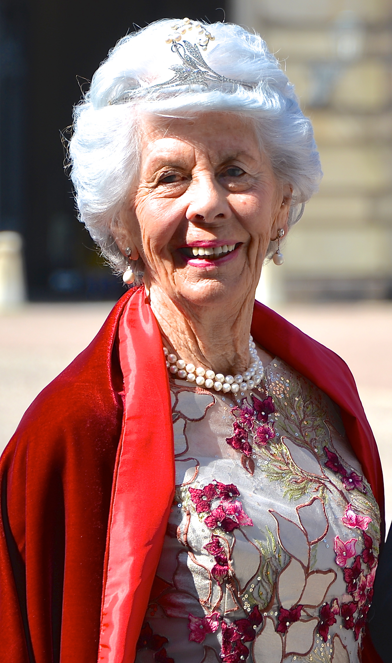 Countess Gunnila Bernadotte af Wisborg on the way to the castle church at the Royal Palace in Stockholm before the wedding between Princess Madeleine and Christopher O'Neill June 8, 2013.